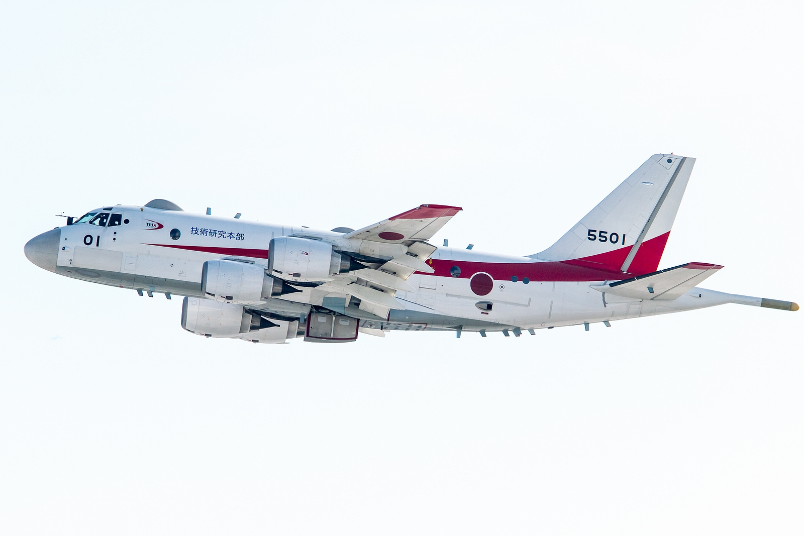 'Peacock 501' Atsugi route 4 depature